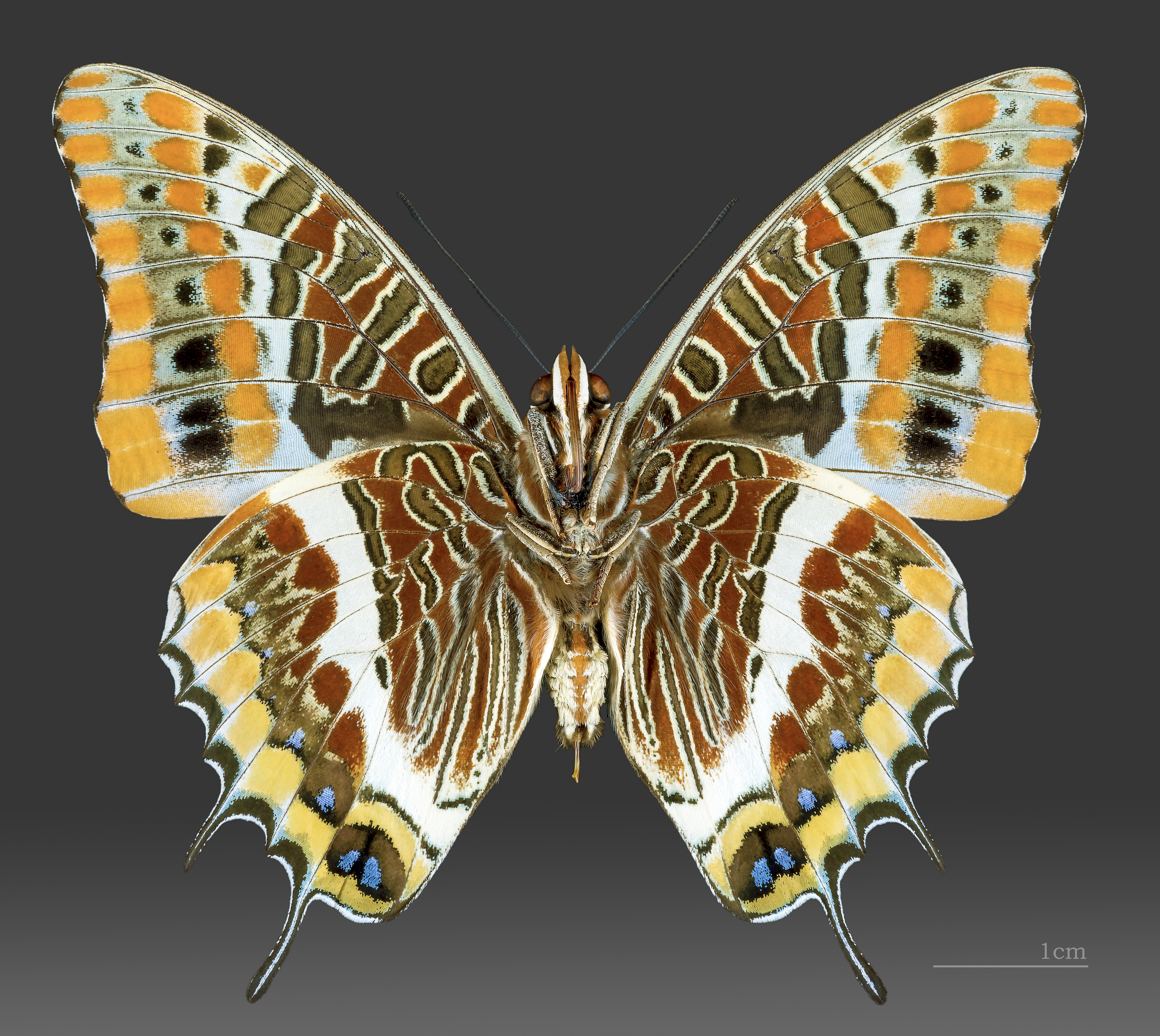 Foxy Emperor - △ Ventral side